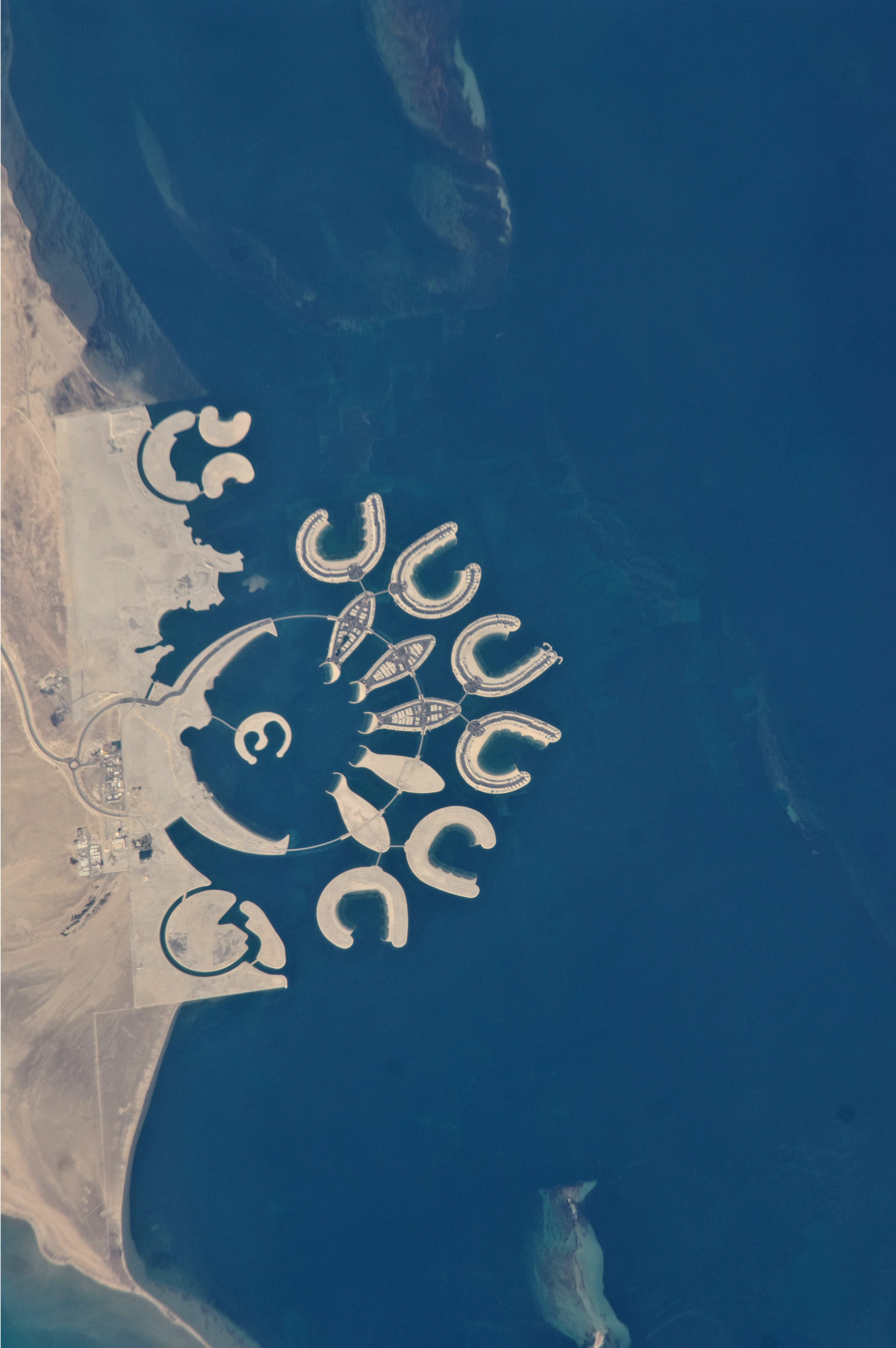 This astronaut photograph shows that construction on the surface of the two southern atolls and petals has yet to begin. Artificial beaches have been created on the inner shorelines of the Crescent and petals, with smaller beaches on the inner ends of the atolls and Hotel Island. The angular outline of the golf course, where many more residences are planned, can be seen between The Crescent and the marina. What may be a second marina is being carved out at the south end of the complex (mirroring the one on the north), though no such marina appears in earlier published plans for Durrat Al Bahrain.